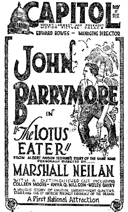 Newspaper ad for the film The Lotus Eater from New York City, in 1921. Cropped and contrast adjusted from the pdf.